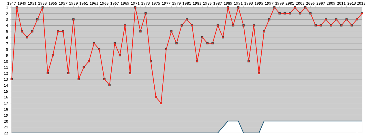 Arsenal F.C. league positions, 1947-2014